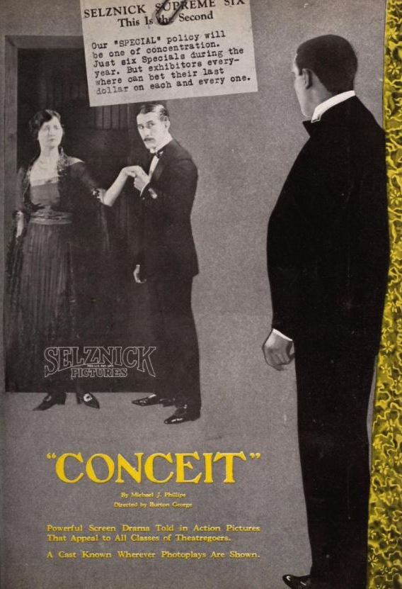 Advertisement for the American film Conceit (1921) with Hedda Hopper, Charles K. Gerrard, and William B. Davidson, from the insert after page 10 of the August 13, 1921 Exhibitors Herald.